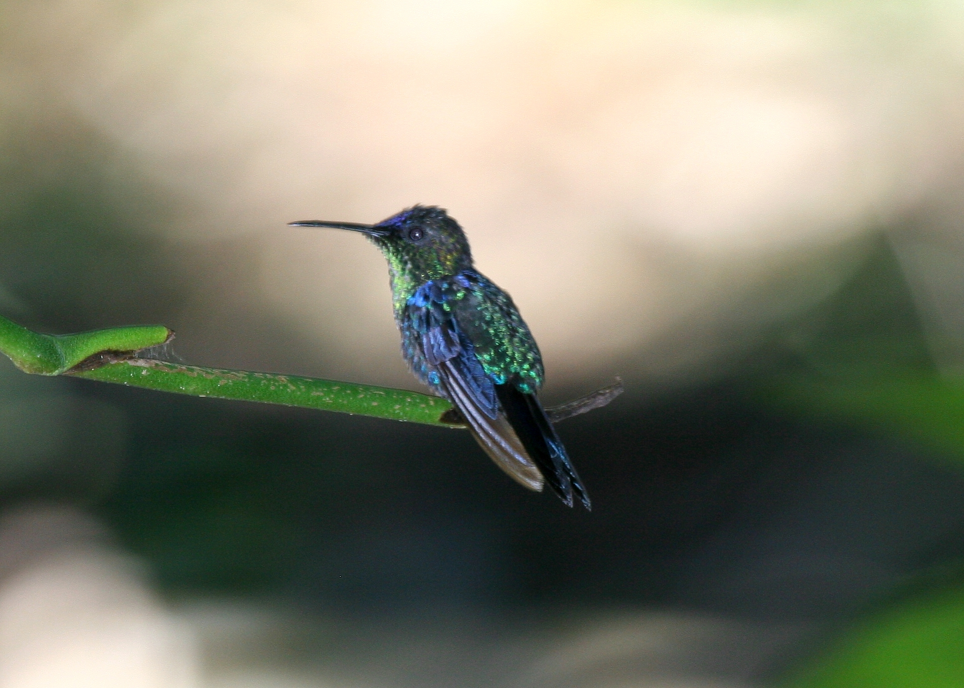 Violet-crowned Woodnymph (Thalurania colombica) in Honduras.